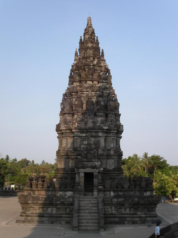 One of the temples in the prambanan temple complex.